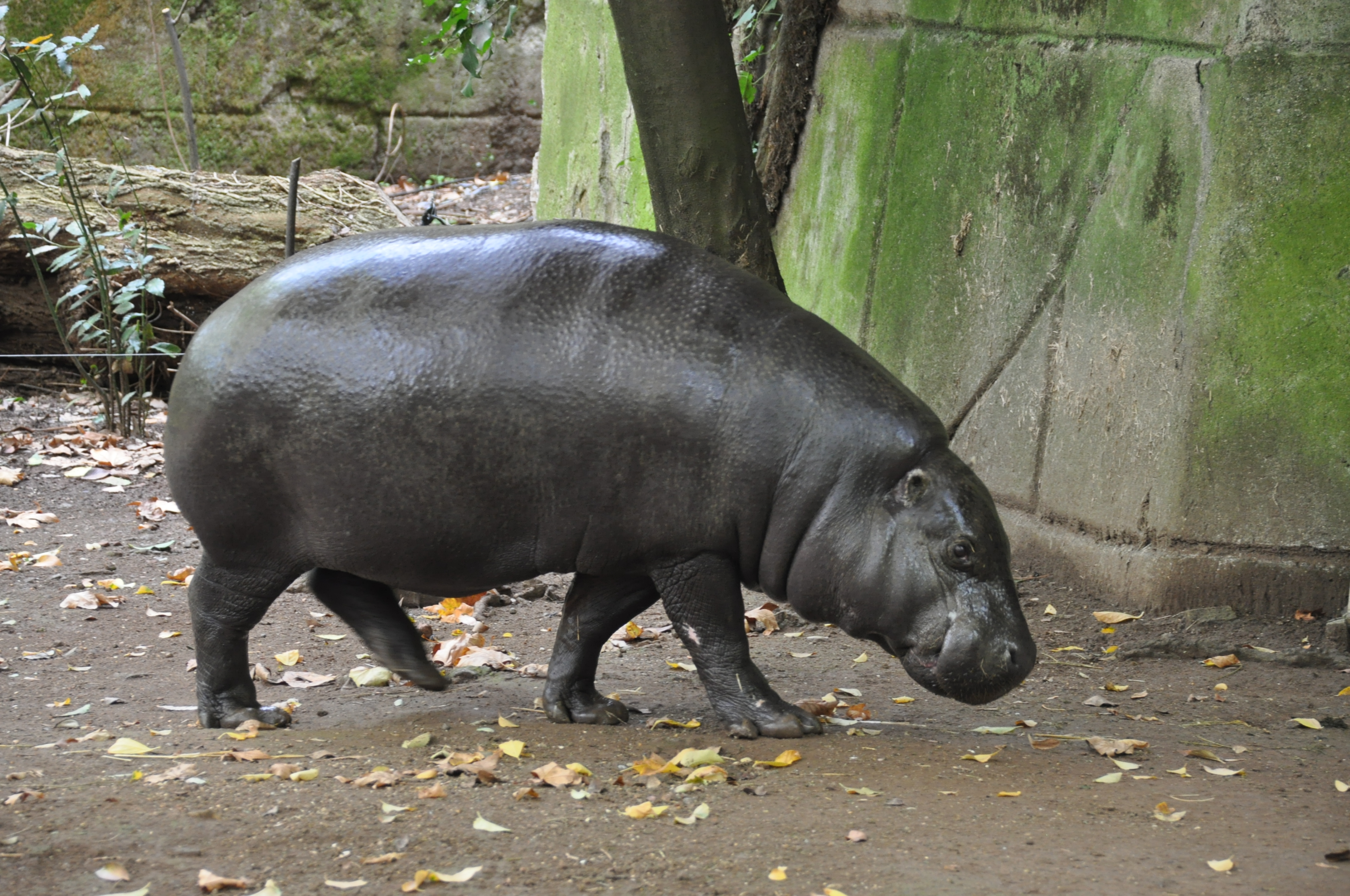 Choeropsis liberiensis / Pygmy hippopotamus in Bioparco di Roma